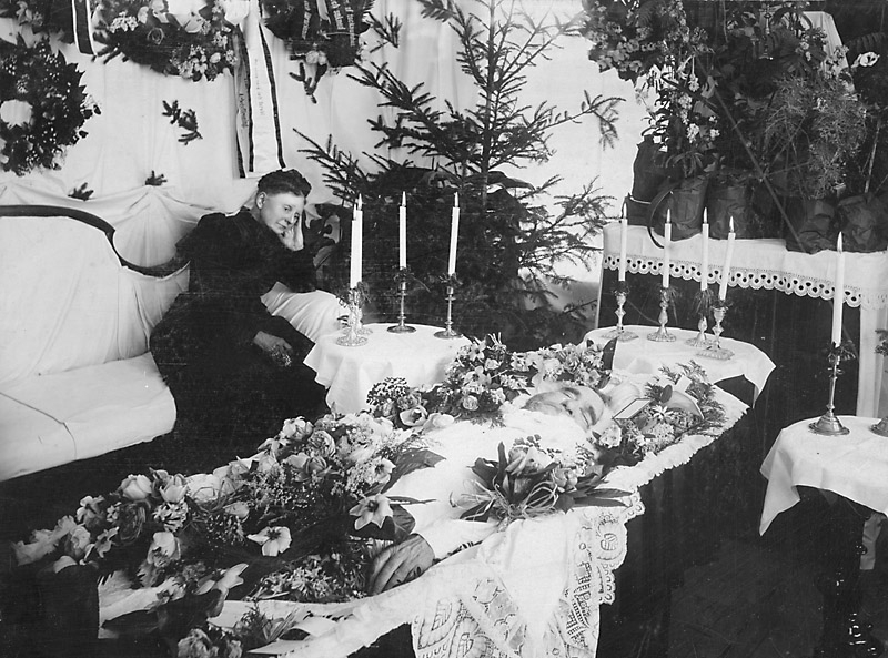 This picture represents the mourning of a widow towards her husband during the swedish tradition "likvaka", in english "wake".